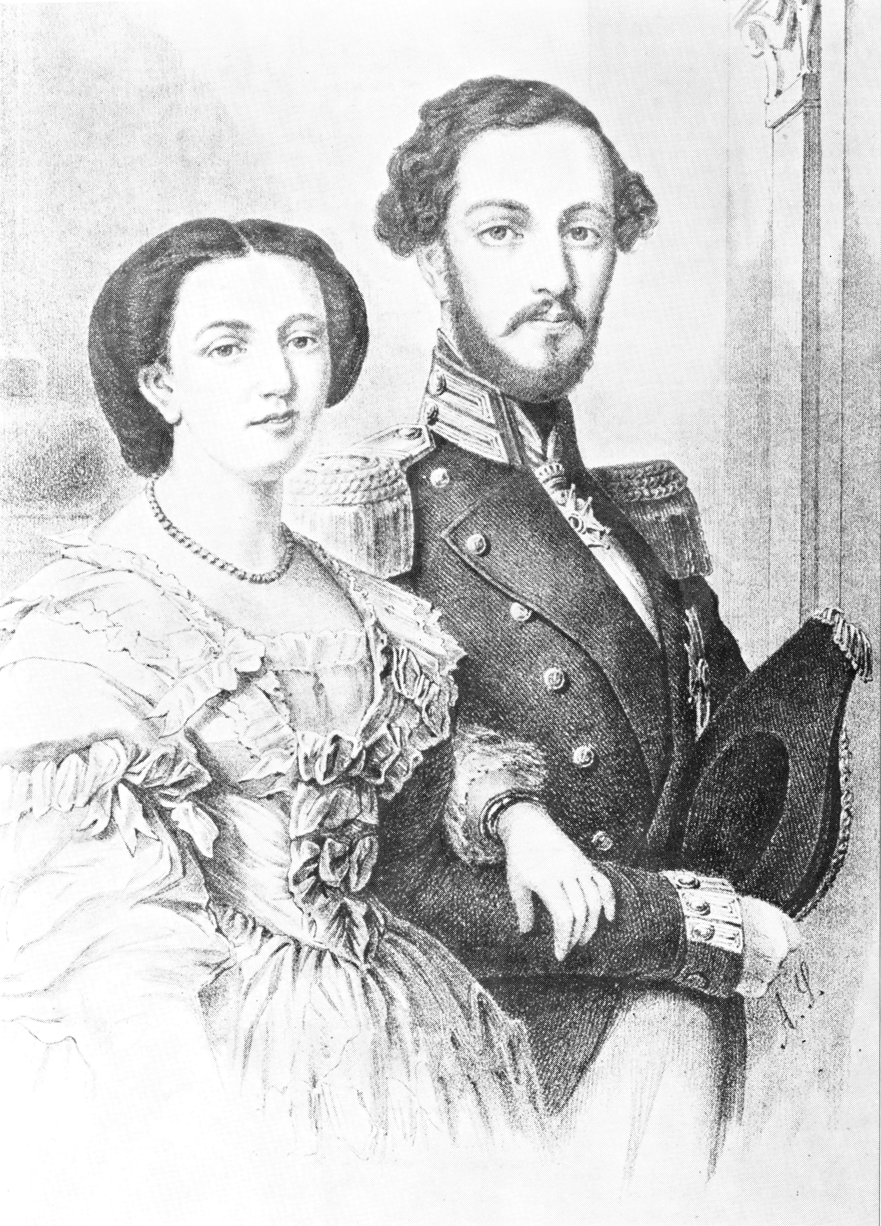 Prince Oscar (later Oscar II) of Sweden and his wife to-be, Sofia of Nassau. Contemporary engraving.